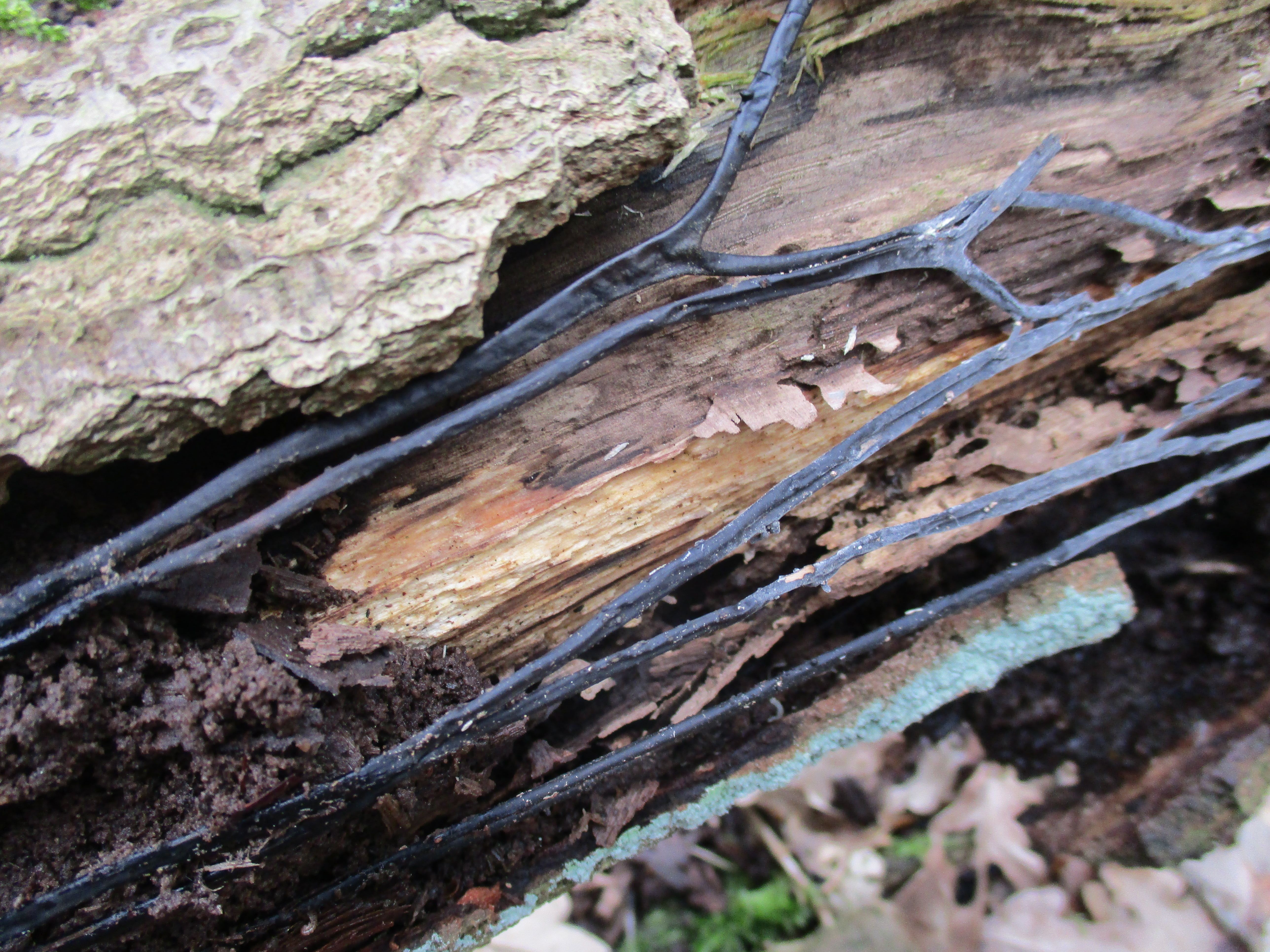 Mycelial cord Armillaria (rhizomorphs)